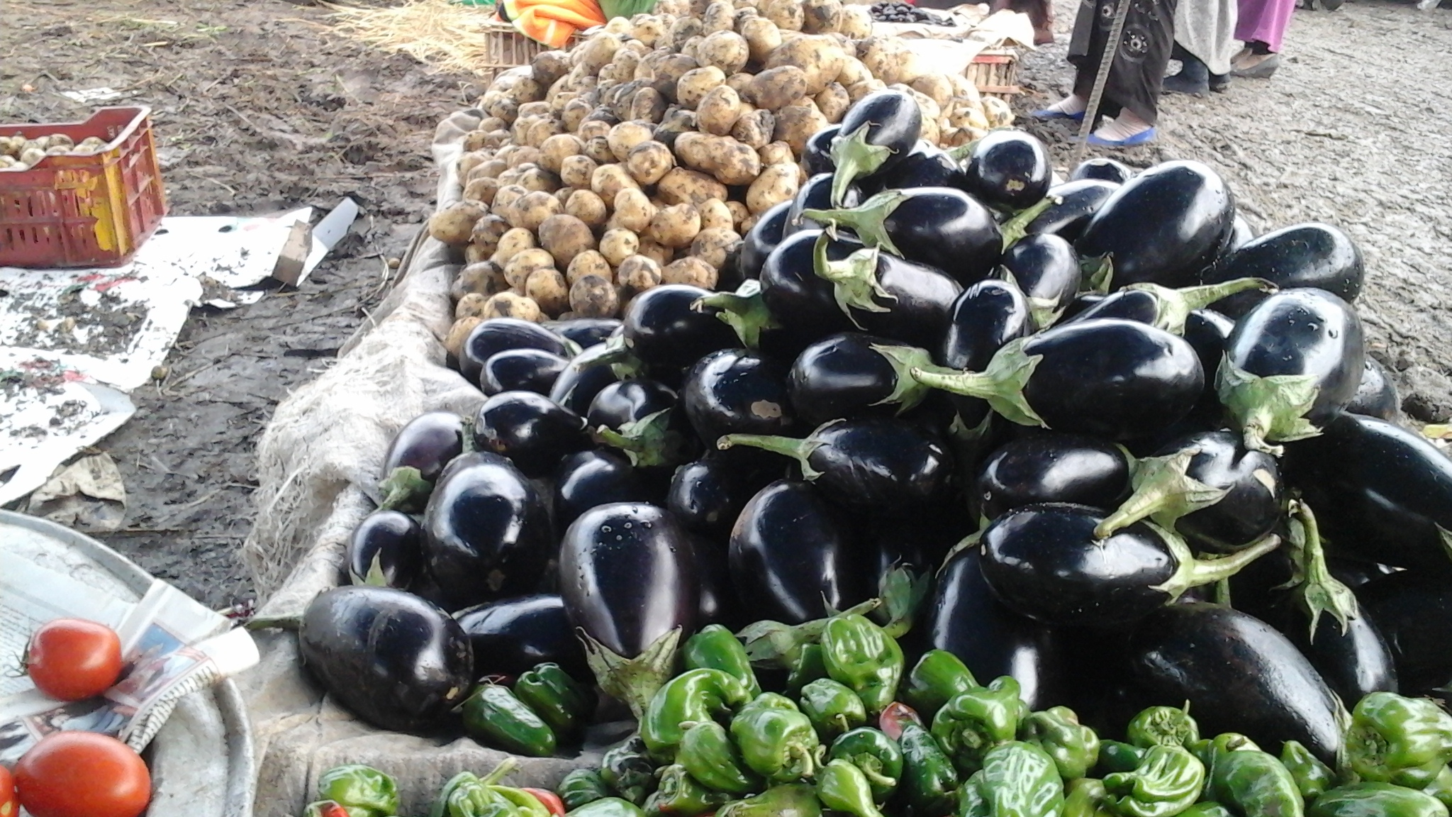 This is an image of food from Egypt